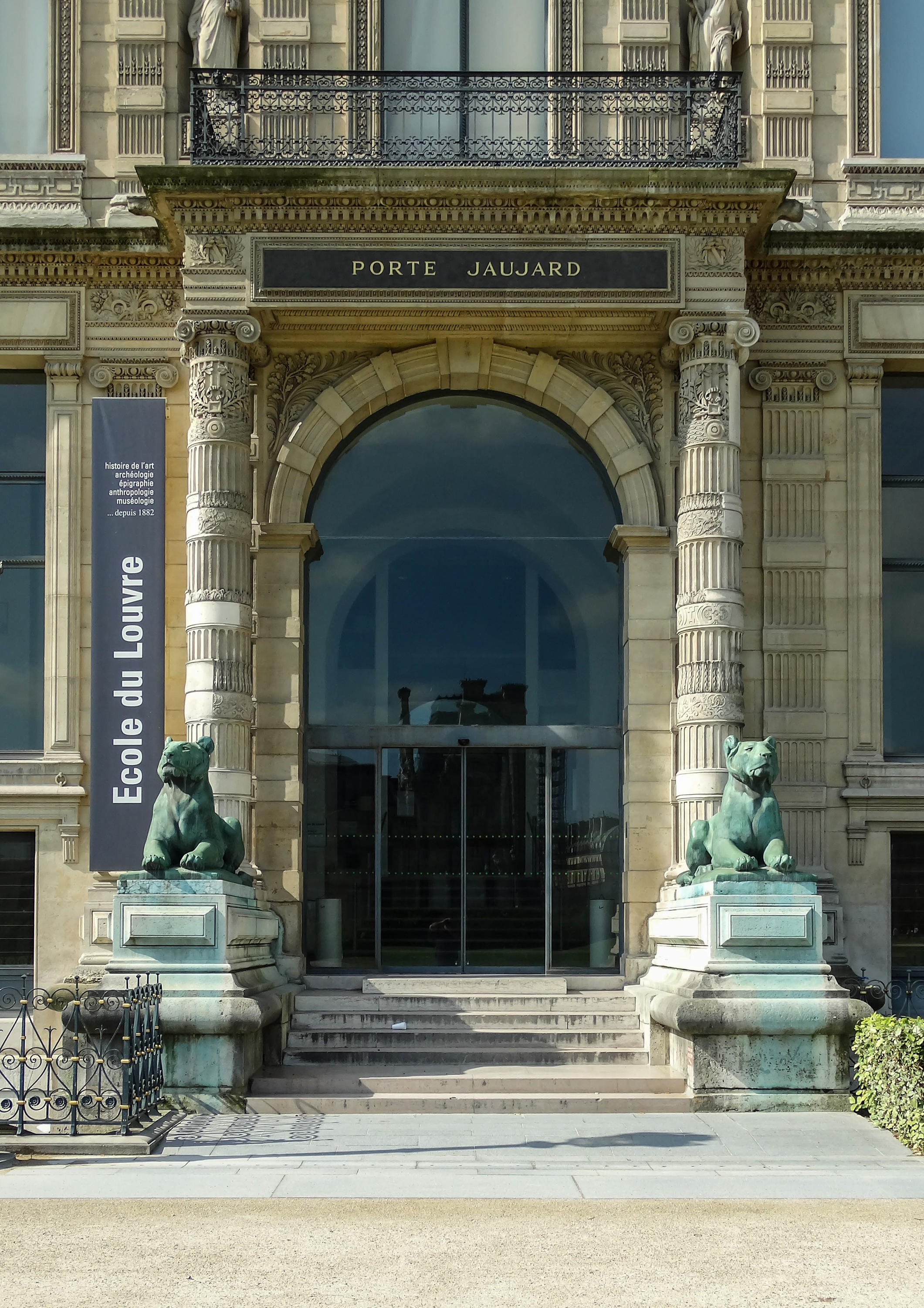 The entrance to Porte Jaujard, which holds the school at the Louvre Museum, with two bronze statues created by Auguste Cain on either side of the entrance.